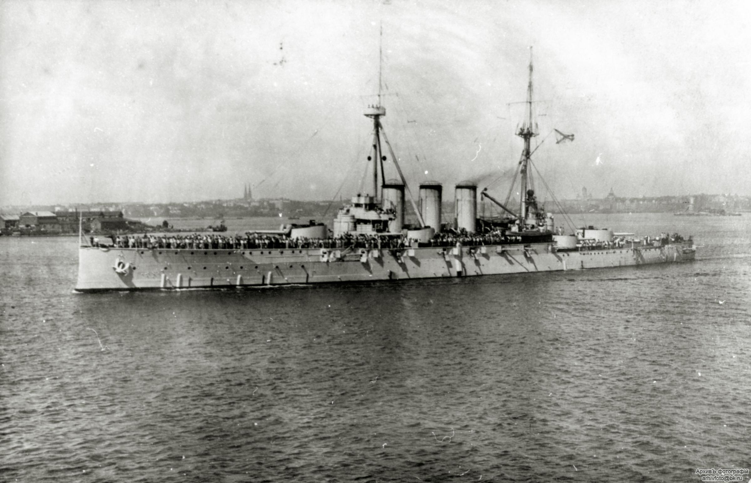 Cruiser of Russian republic Ryurik, Reval, 1917.